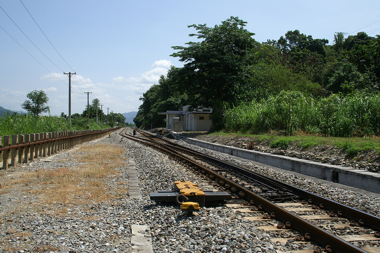 Taiwan Railway Administration Wuhe station.